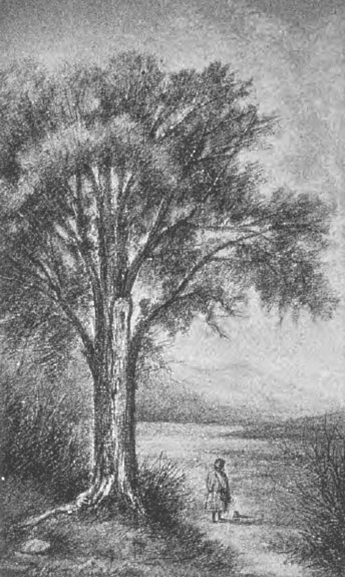 Lithographed illustration to Creangă's passage Şi cum ajung în dreptul teiului, pun demîncare jos în cărare; part of the chapter in Creangă's Childhood Memories, about the his capturing of the hoopoe.